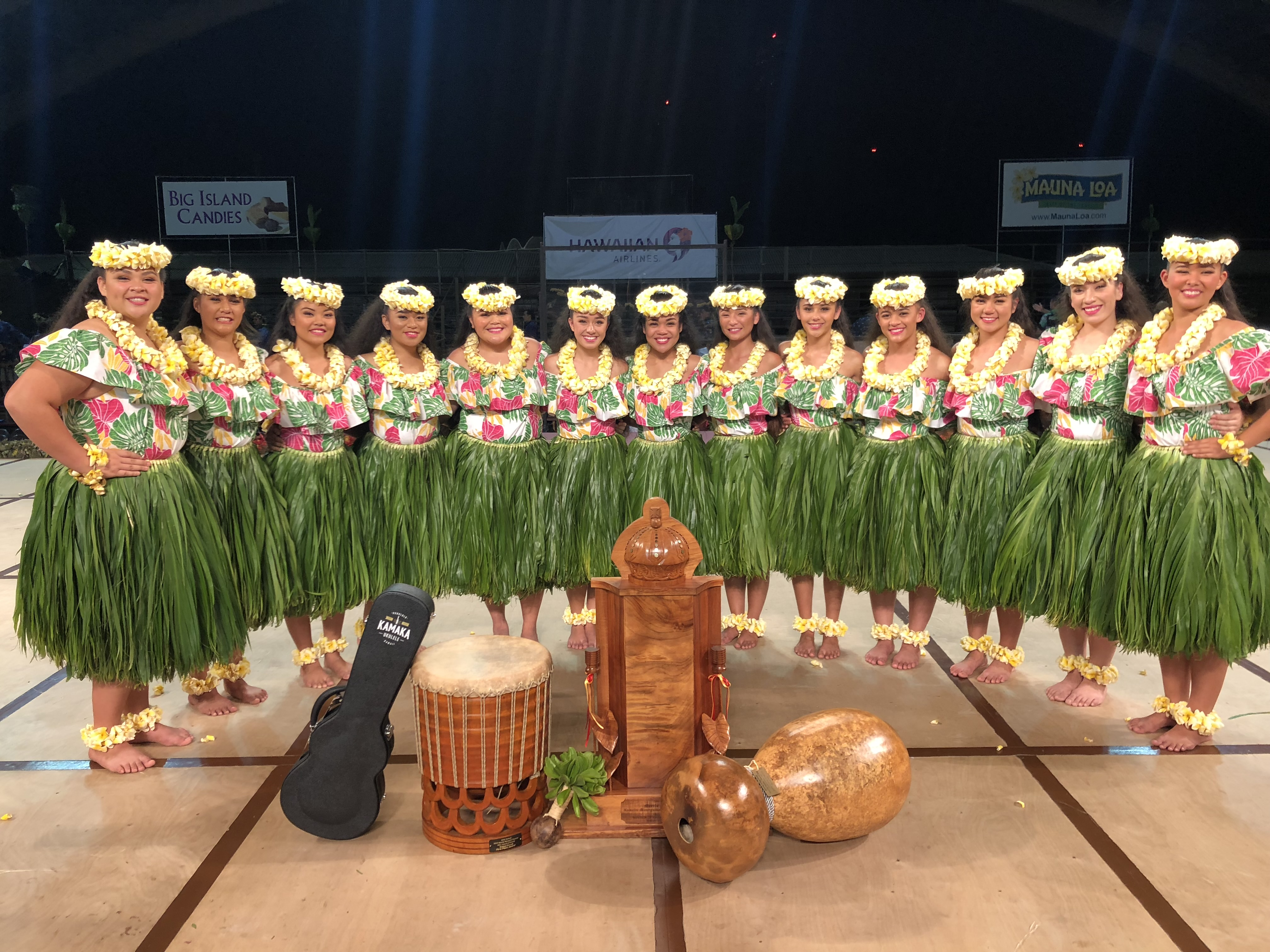 Hula Hālau O Kamuela under the direction of Kumu Hula Kauʻi Kamanaʻo and Kunewa Mook - 2019 Overall Winners of the Merrie Monarch Festival - Hilo HI - Lokalia Montgomery Perpetual Trophy